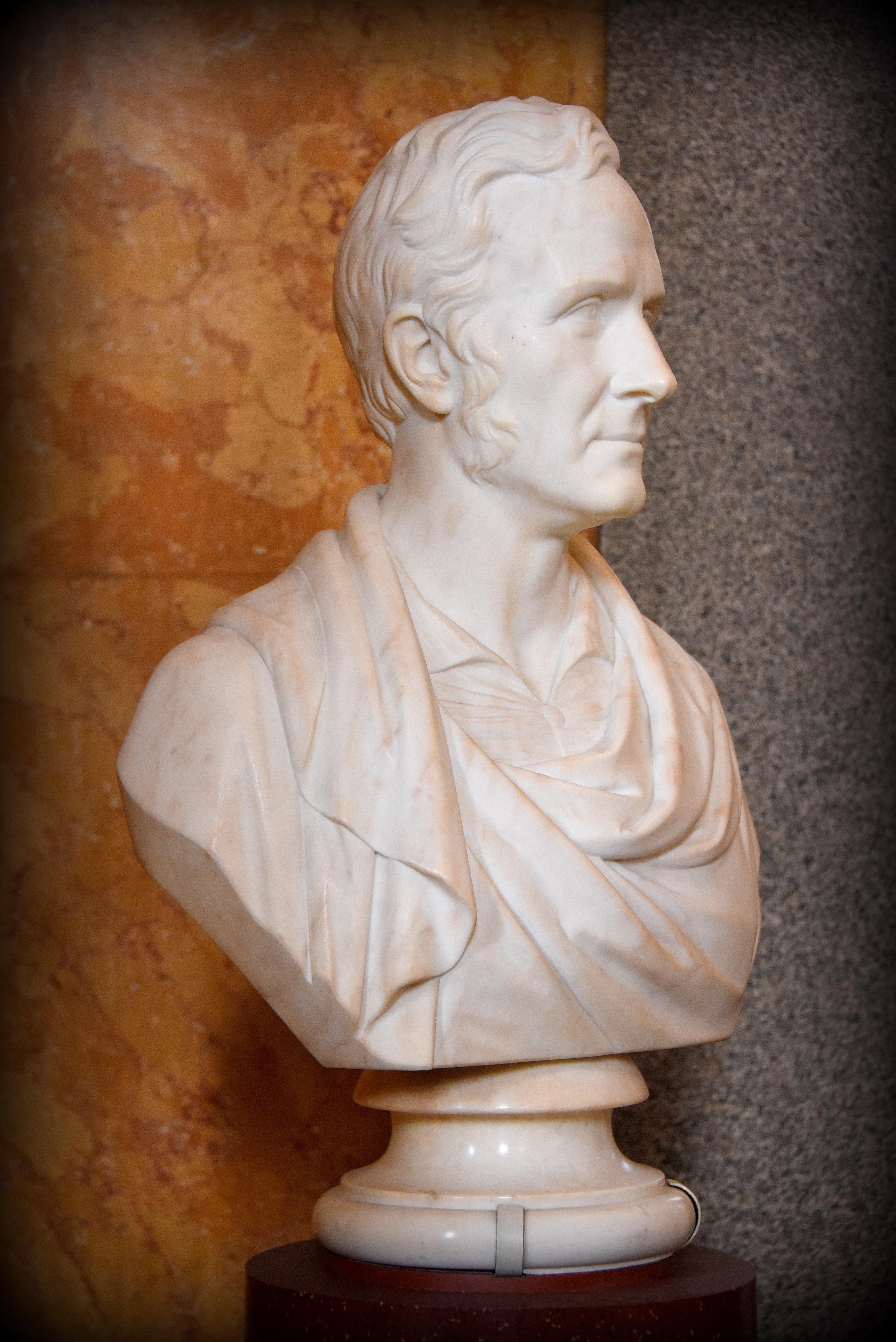 Bust of Sir Robert Smirke, British Museum